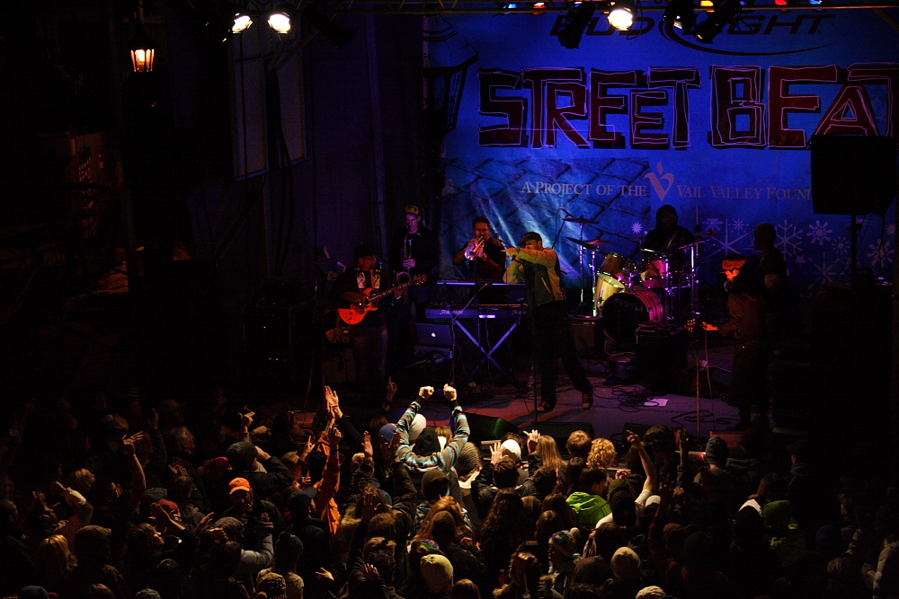 Chris Berry and Panjea performing a Free Concert in Vail Colorado 02-29-2009 Photo by Mike Hardaker of the Mountain Weekly News